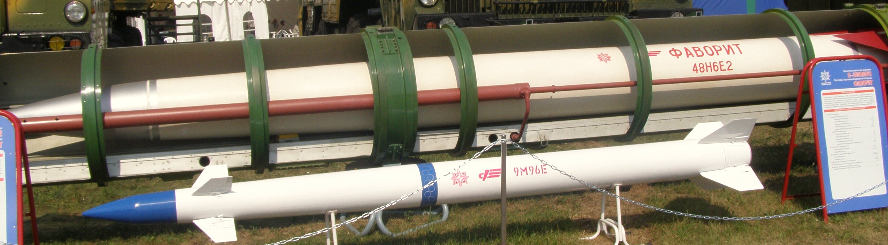 two types of missiles for the russian SA-20 anti-air complex